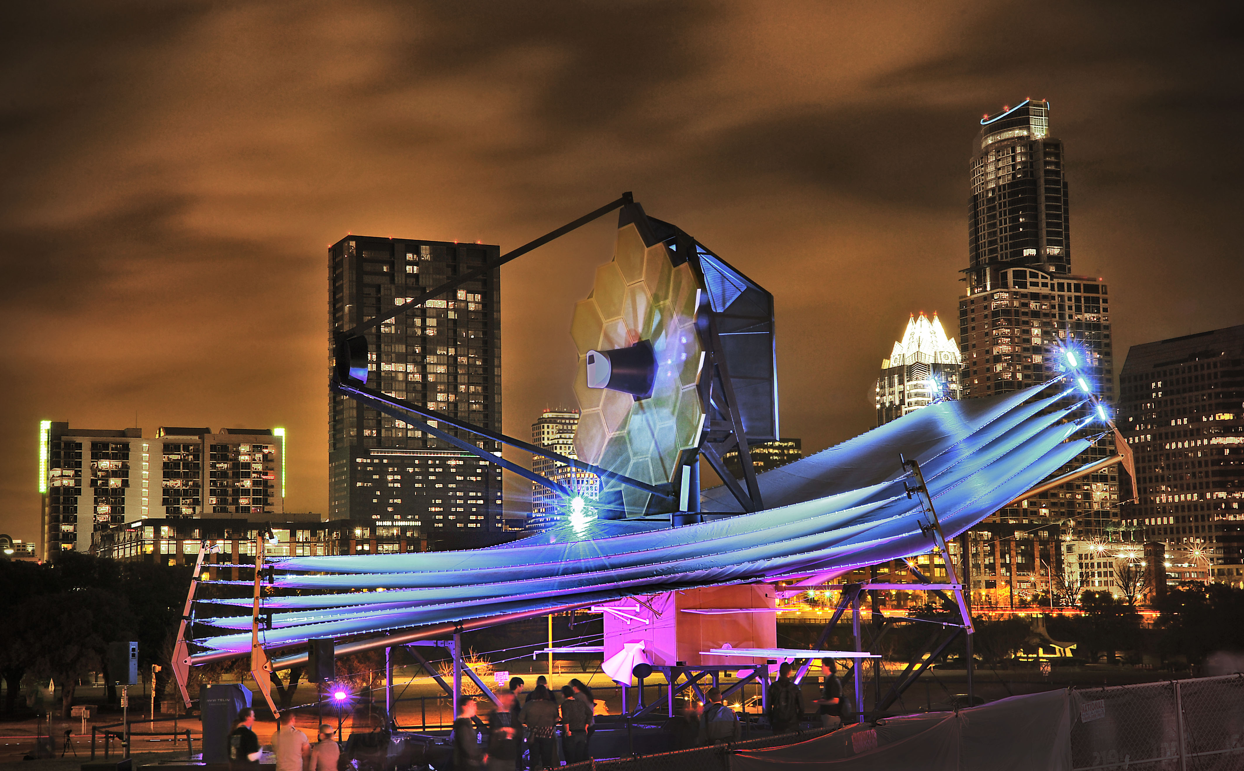 As big as a tennis court and as tall as a four-story building, a full-scale model of the James Webb Space Telescope model was on display from March 8-10 at the South by Southwest Interactive Festival in Austin, Texas. NASA's James Webb Space Telescope is the successor to Hubble and the largest space telescope to ever be built.